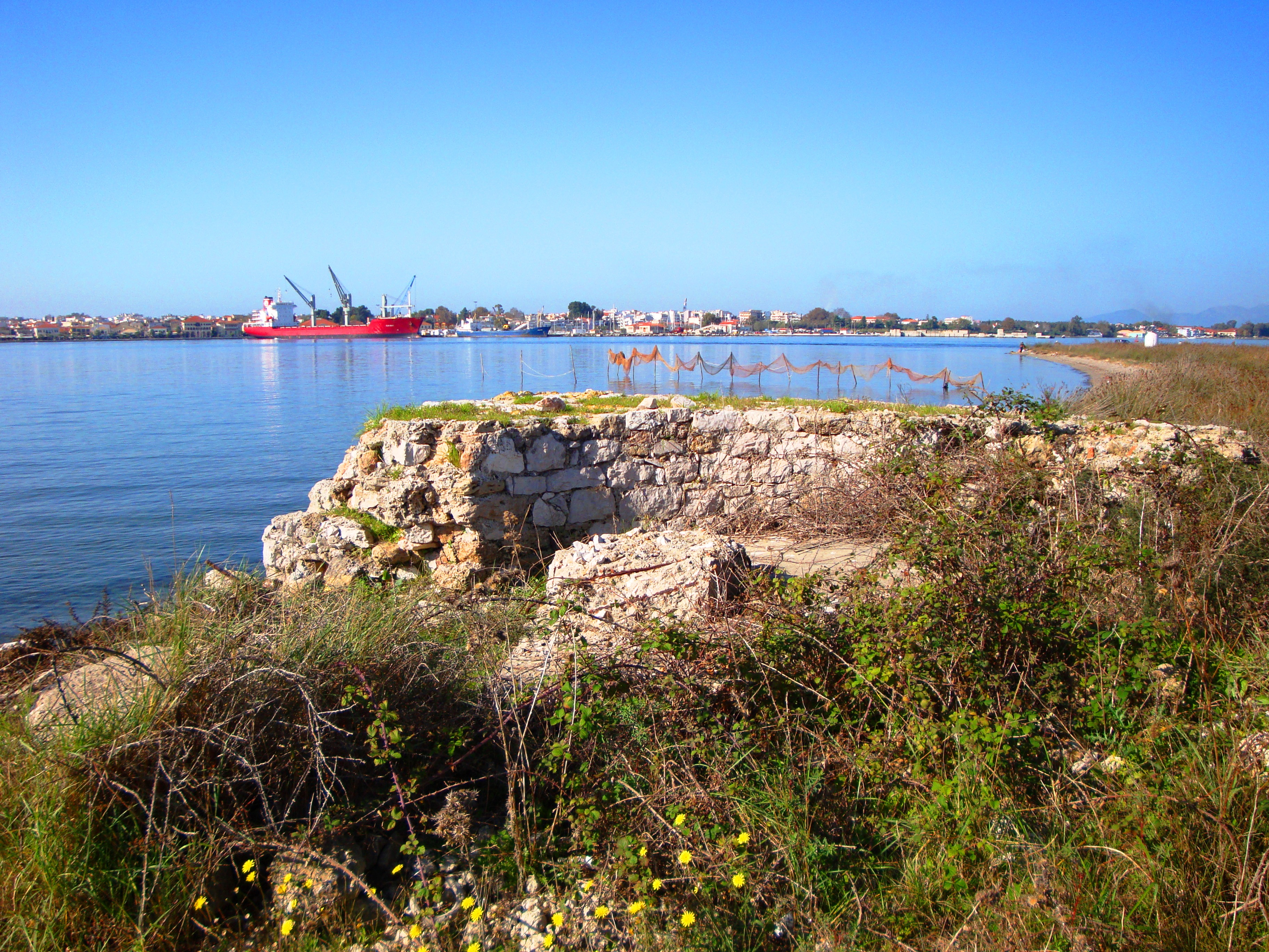 Emplacement in Aktio